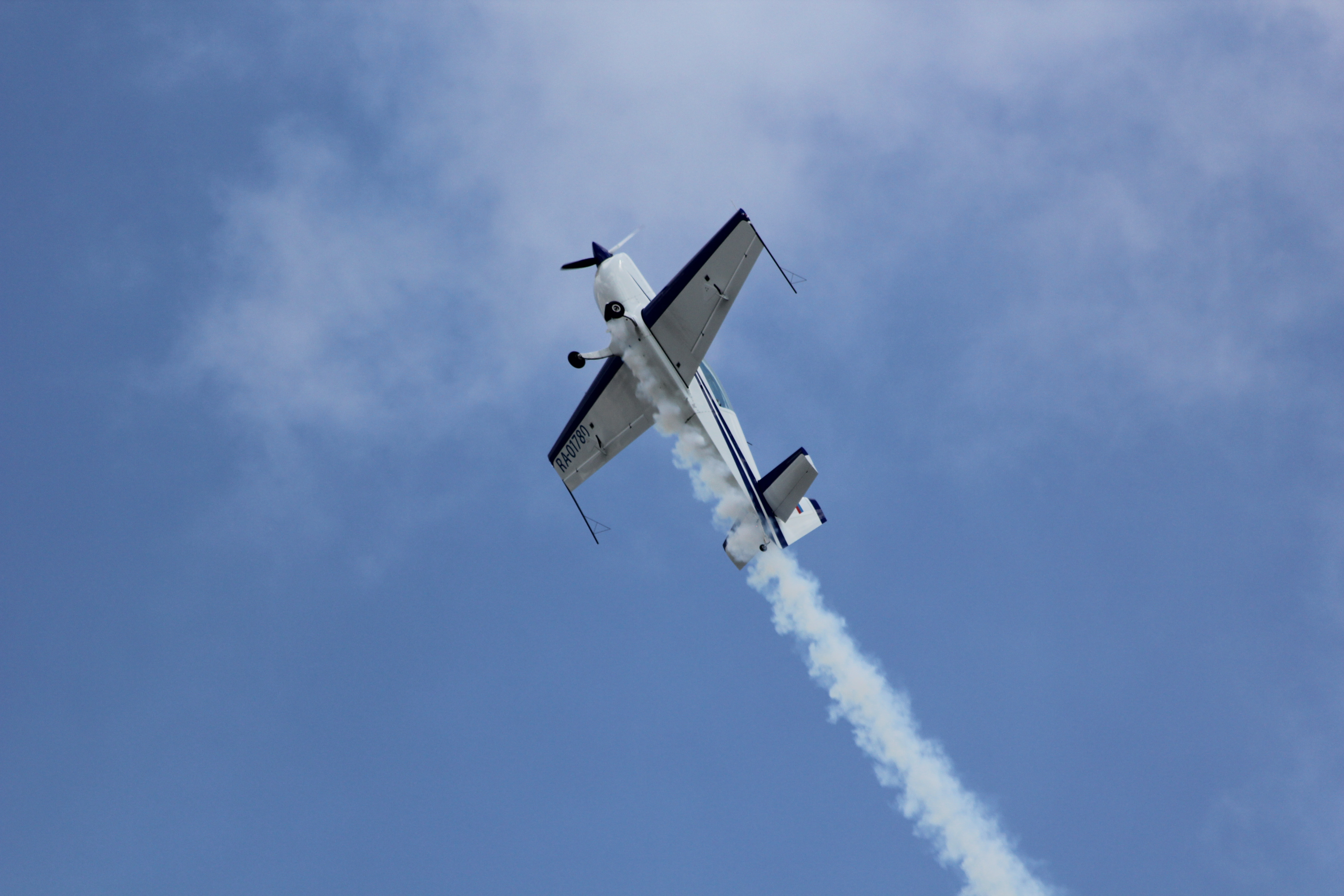 Mikhail Mamistov with Extra 300L aircraft over Malmi airport at Sami Kontio Challenge air show during his first free form program.